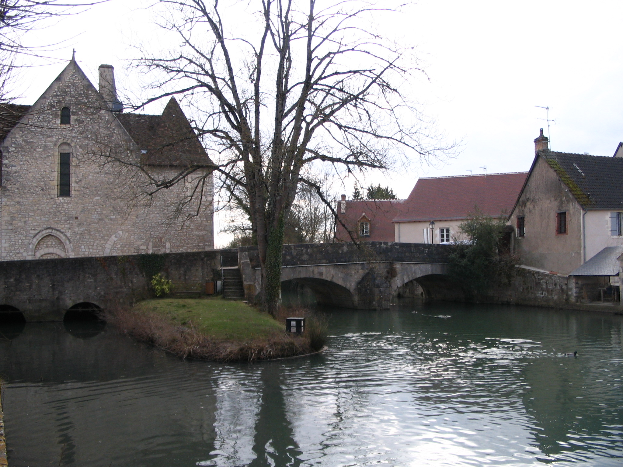 River Théols crossing Issoudun, Indre, France.